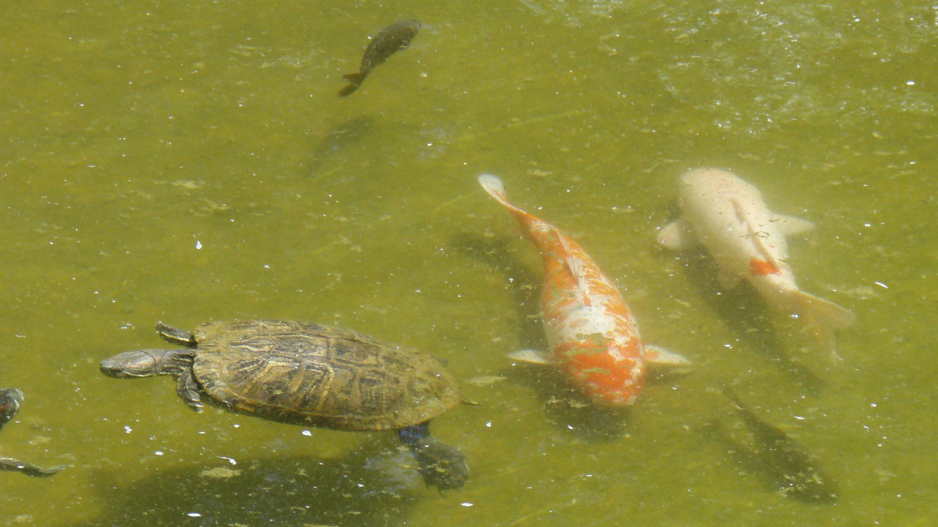 Red-eared slider turtle and Koi fish at pond in Hakone Gardens in Saratoga, California (2007)